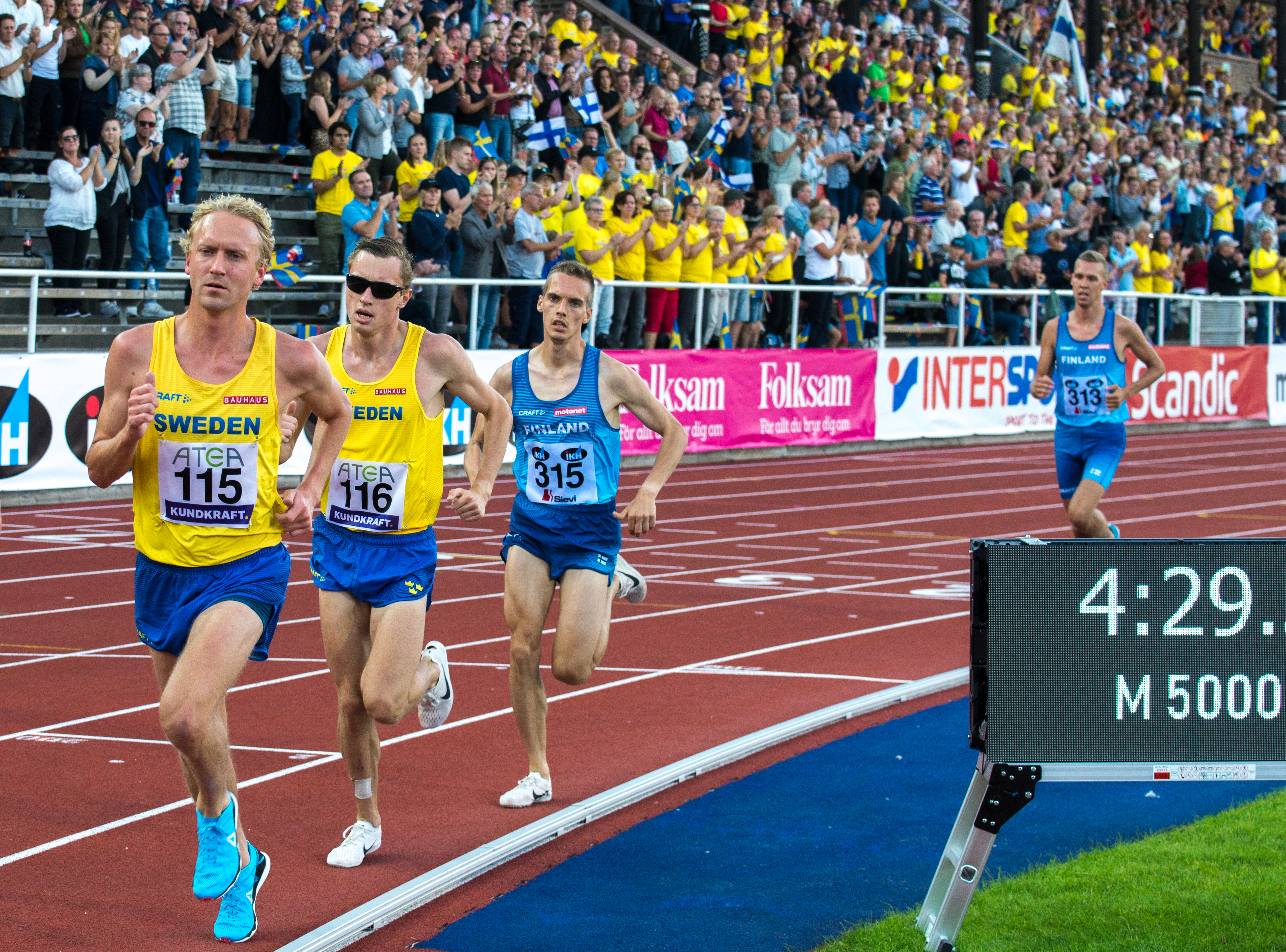 5000 metres during the Finland-Sweden athletics international 2019 at the Stockholm Stadium in August 2019. Kalle Berglund (116), David Nilsson (115), Simon Sundström (114), Miika Tenhunen (315), Hannu Granberg (314), Martti Siikaluoma (313). Berglund winner.